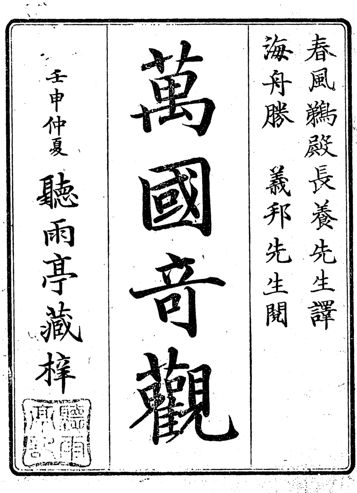 Japanese book "Bankoku Kikan", written by Udono Danjirō published in 1872